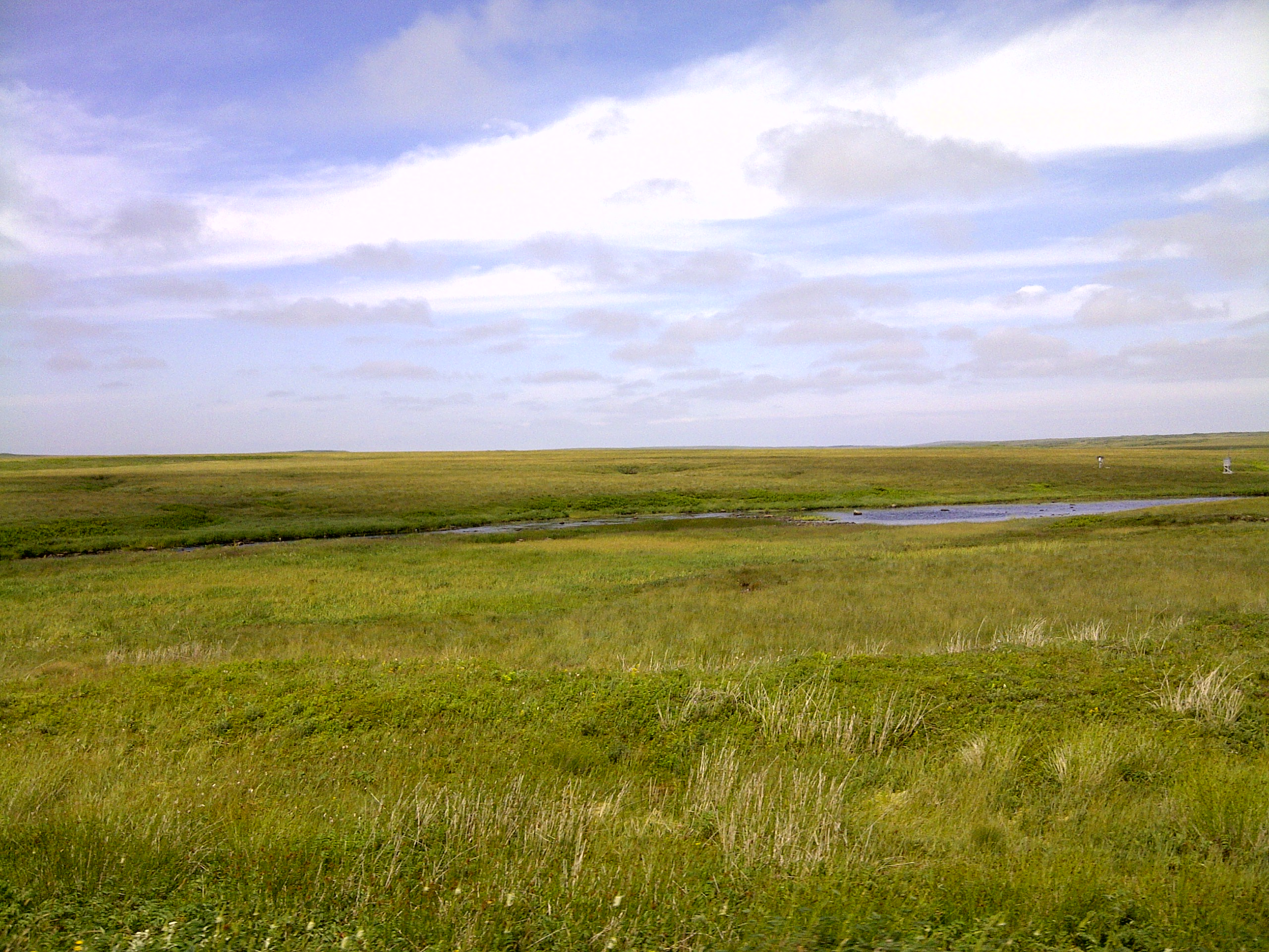 Scrub landscape at the south end of the Avalon Peninsula, west of Trepassey, Newfoundland, Canada.